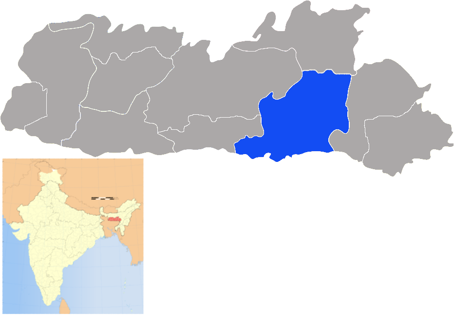 East Khasi Hills district of Meghalaya